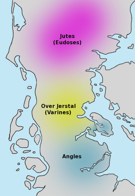 Tribal area of Over Jertal, Angles and Jutes